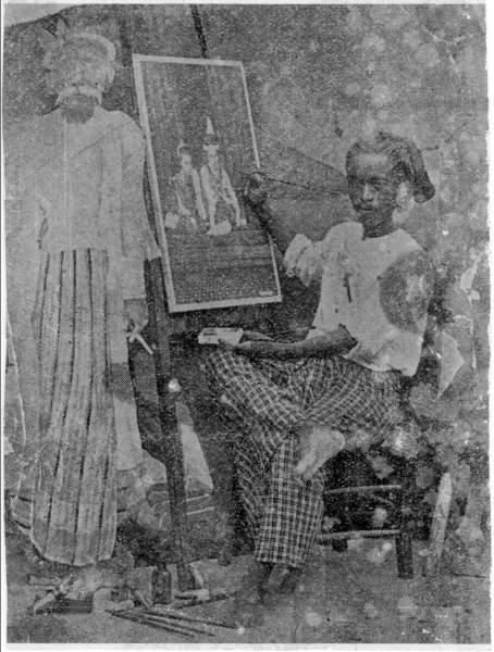 This is a photograph of the Burmese painter Saya Aye (1872-1930). Saya Aye